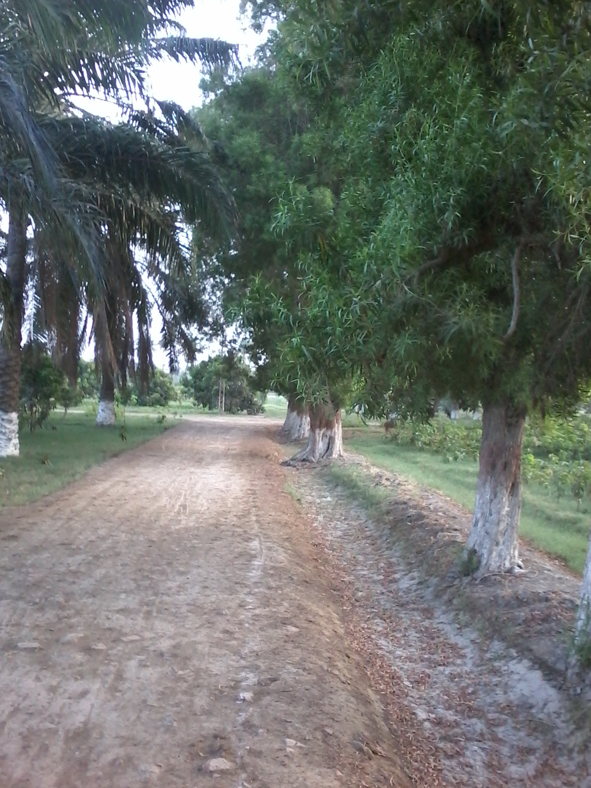 Picture is from Fruit Form, Mirpurkhas(sindh).